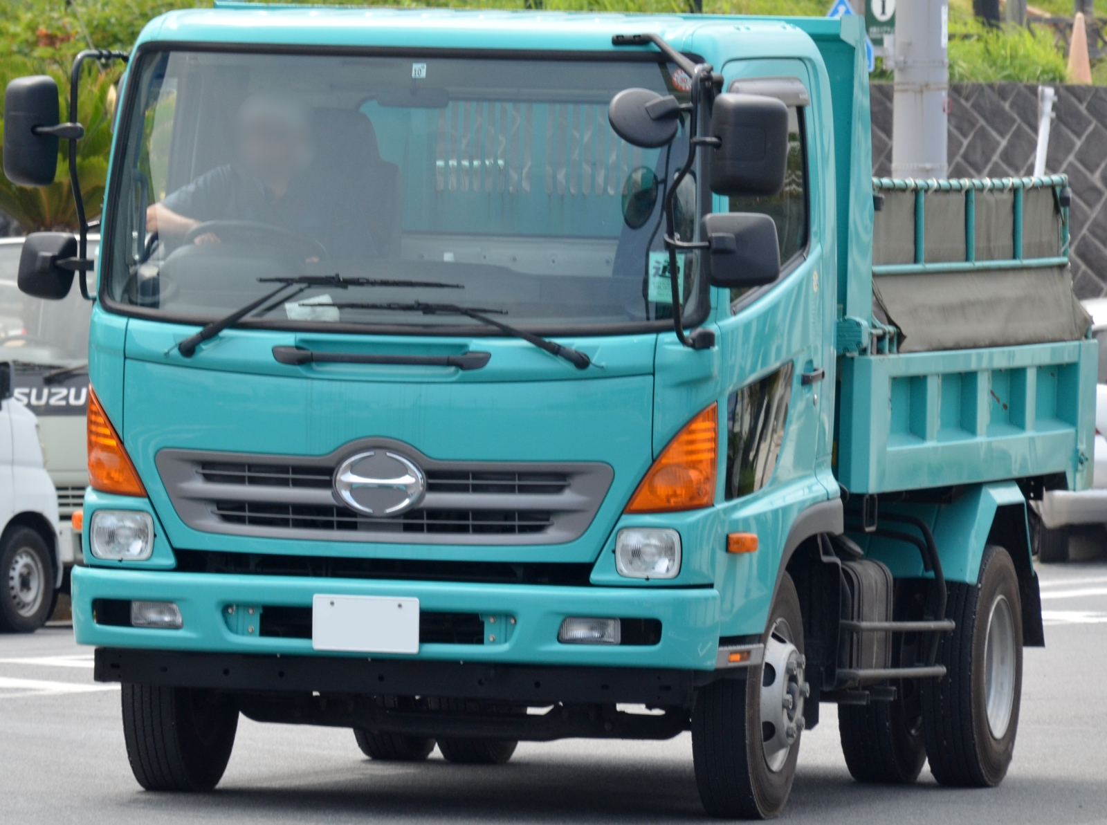 Hino Ranger FC Dump truck